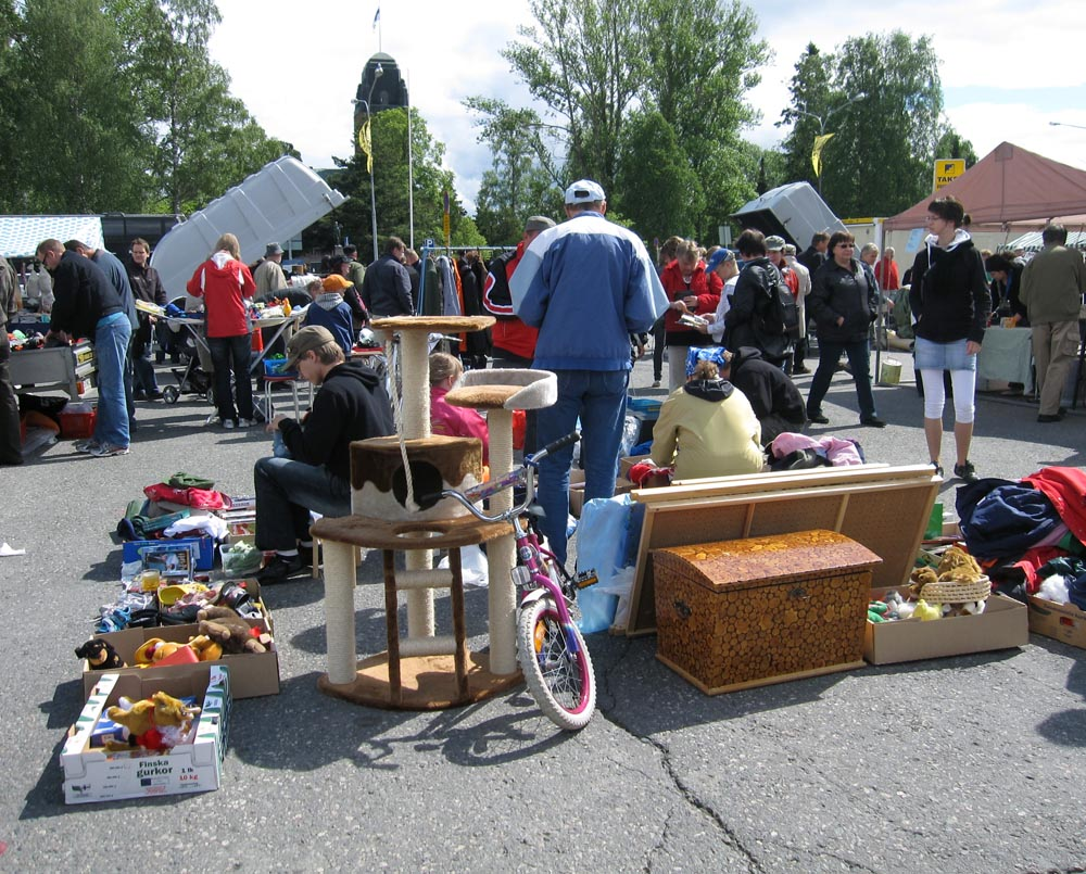 Joensuu market place, flee market